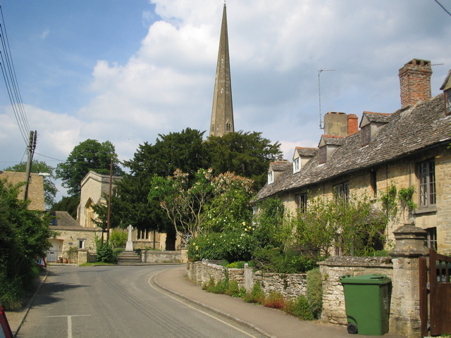 Church Street, Kidlington, Oxfordshire, looking north to the spire of St Mary's parish church. The cottages on the right are 74–78 Church Street.